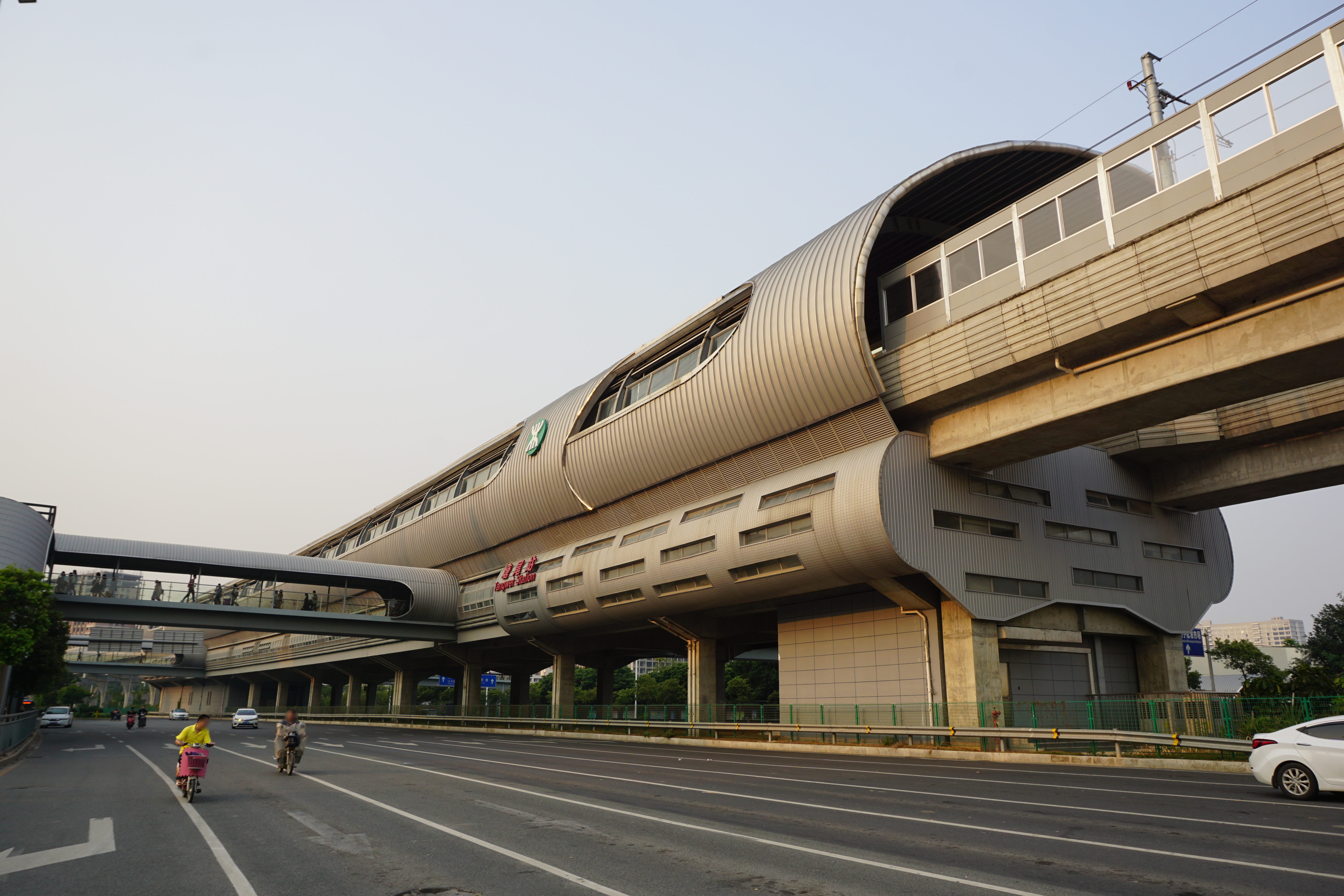 Tangwei Station in Fuyong, Shenzhen.